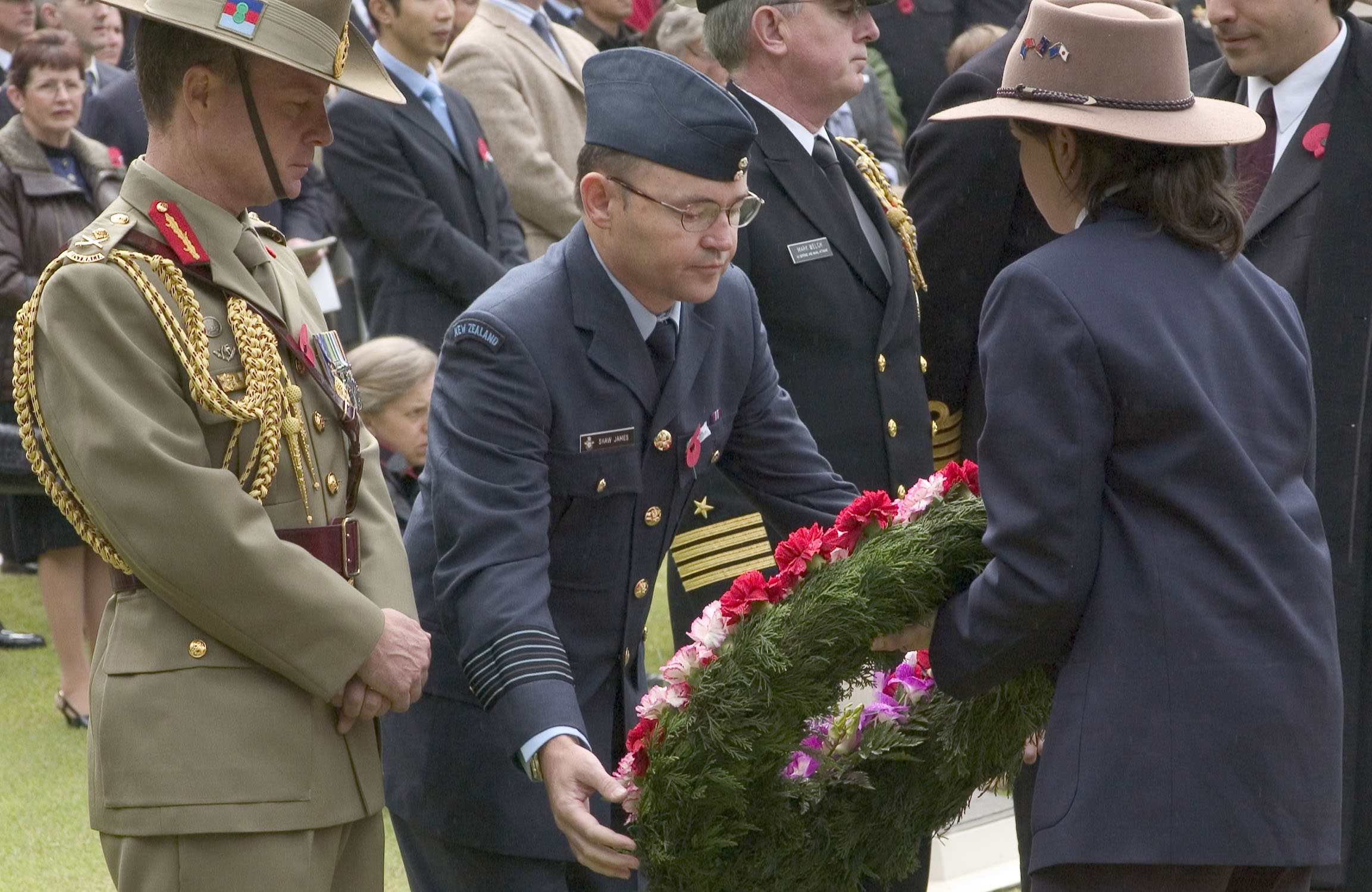 Yokohama, Japan (April 25, 2006) - Representative of the New Zealand Defense Force, Group Capt. Shaw James receives a wreath, in the Hodogaya British Commonwealth War Cemetery, which will be laid on a cross in honor of Australian and New Zealand Army Corps (ANZAC) soldiers who have died in war. ANZAC Day is celebrated in remembrance of the first ANZAC operation at Gallipoli, Turkey on April 25, 1915. U.S. Navy photo by Photographer's Mated 2nd Class John L. Beeman (RELEASED)